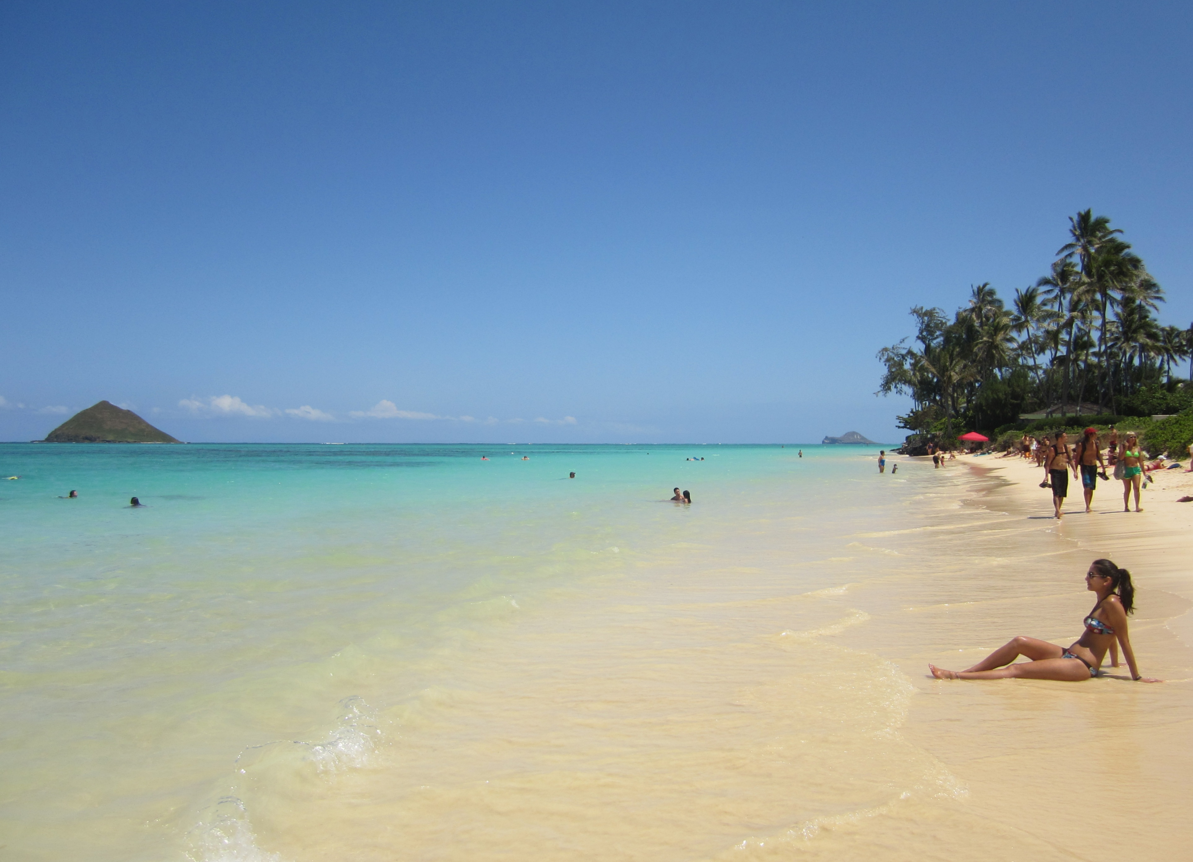 The famous Lanikai Beach on the East Shore of Oahu. This Beach appears on rankings of the world's best beaches.